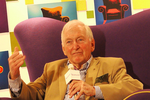 Bryce Courtenay shared with us about the the key ingredient to a big idea